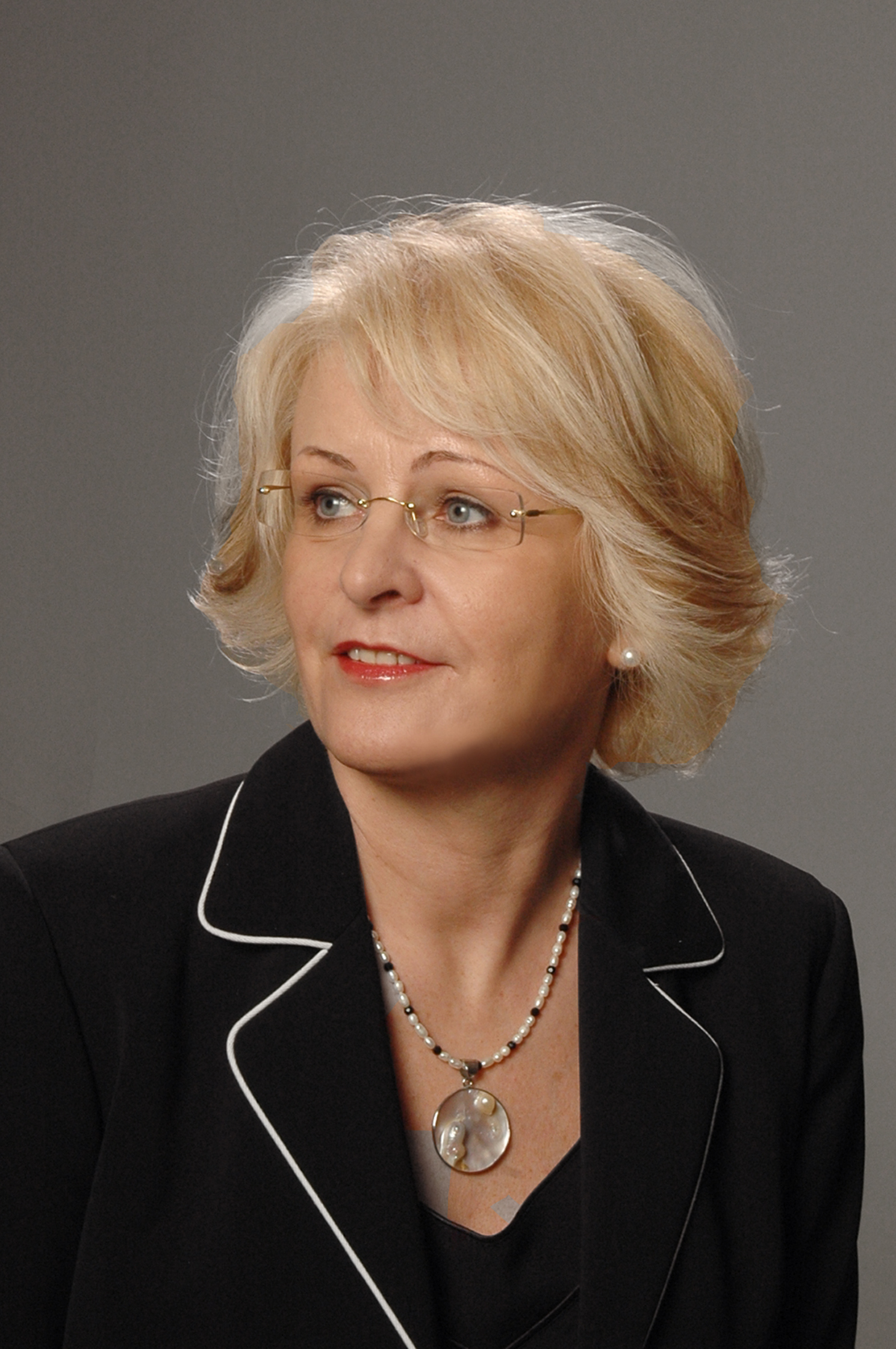 Deputy of the 9th Saeima Vineta Muižniece